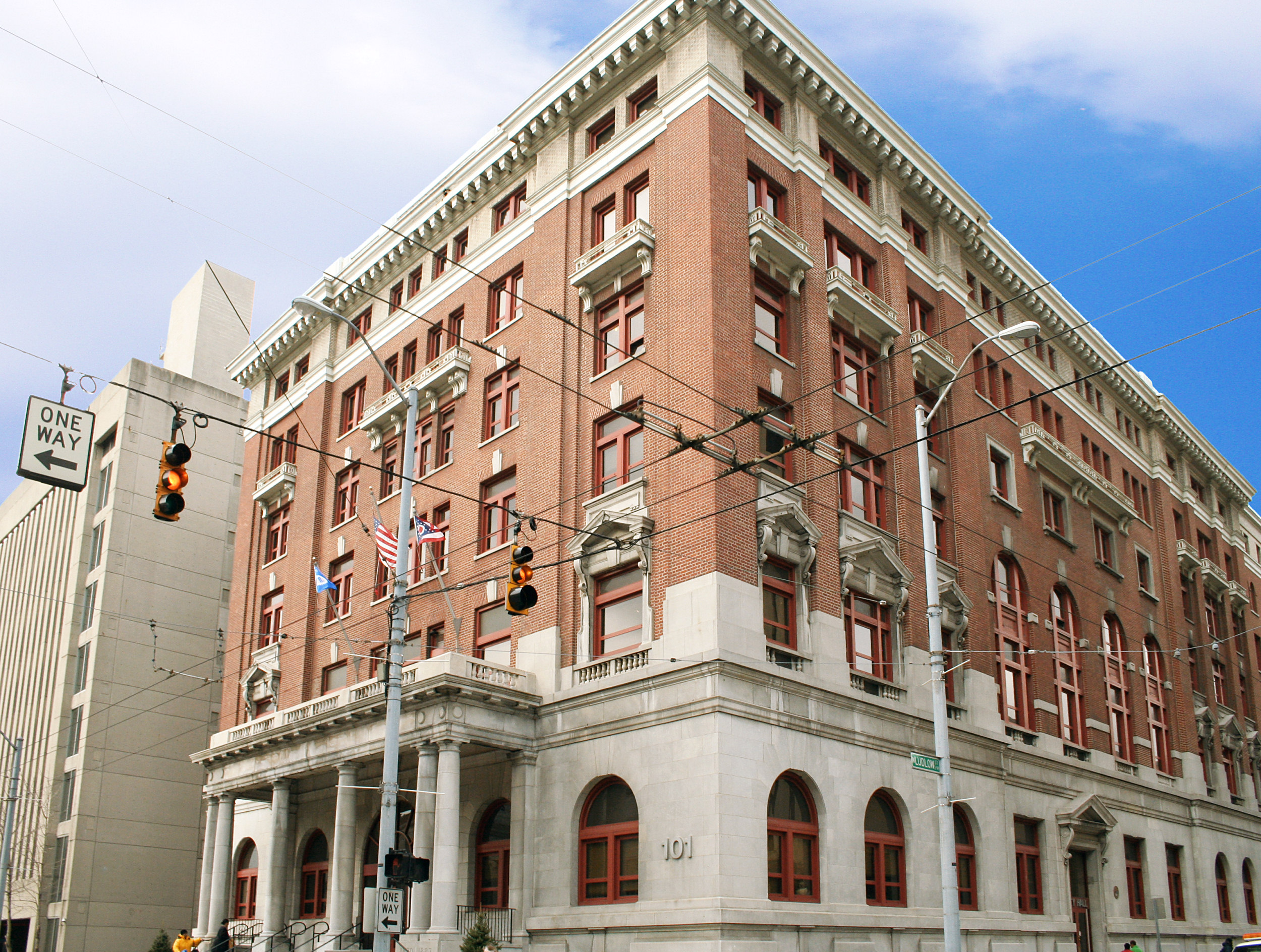 City Hall in Dayton, Ohio. Photo shot by Derek Jensen (Tysto), 2006-01-30